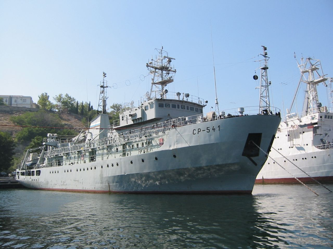 Russian degaussing ship SR-541 in Sevastopol.